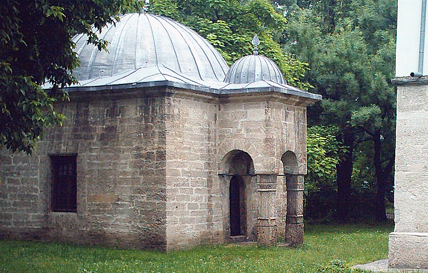 Osman Pazvantoglu Library in Vidin, Bulgaria